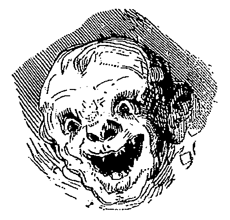 Bifrons, an illustration from the "Dictionnaire Infernal" by Jacques Collin de Plancy.